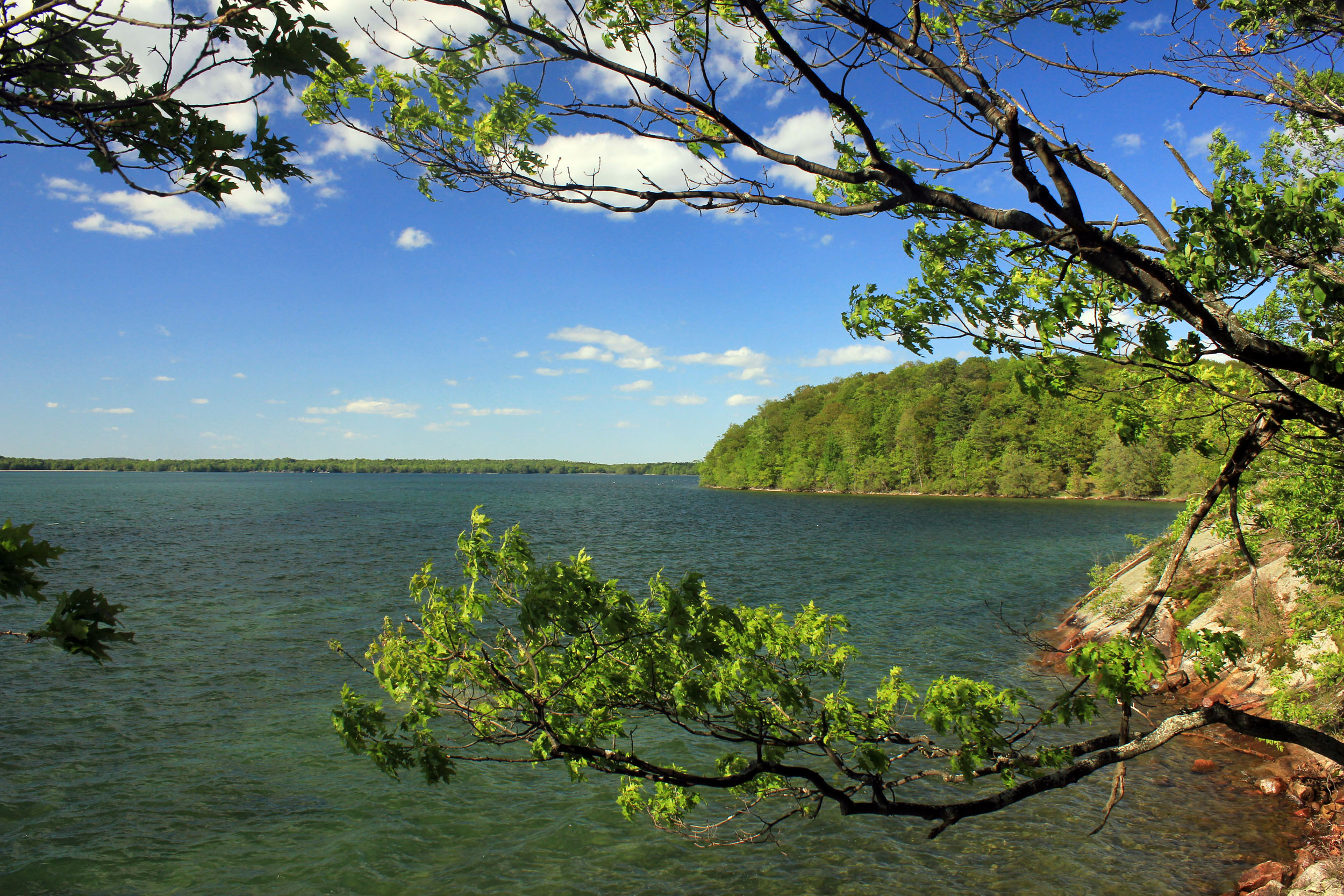 Located on the Island of Wellesley in the St. Lawrence River, this park features camping, fishing, biking, and rich scenery of forests, Lake Ontario, and the St View of the Lake and shore through the trees